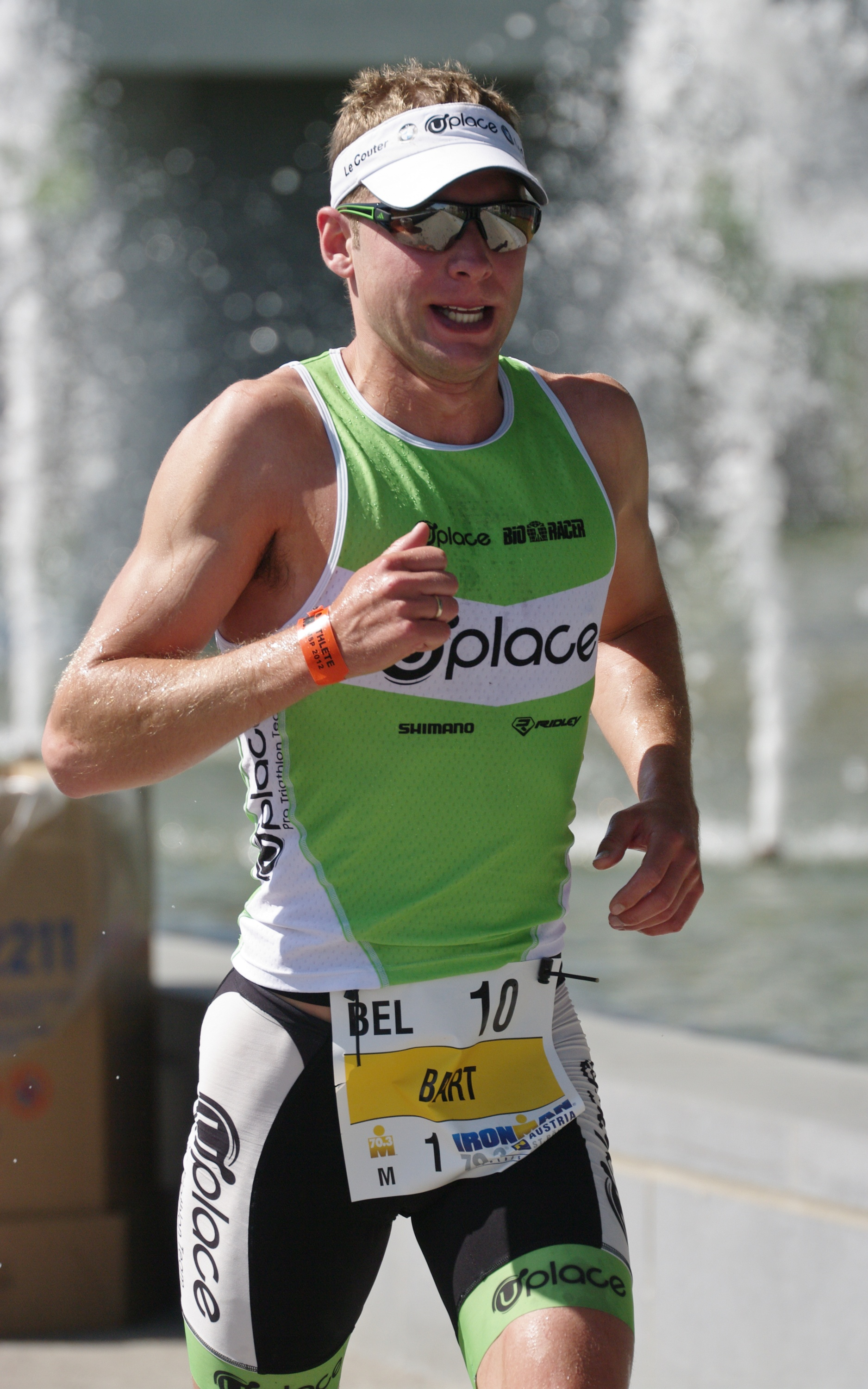 Belgian triathlete Bart Aernouts in the Ironman 70.3 Austria on 20 May 2012 in St. Pölten.